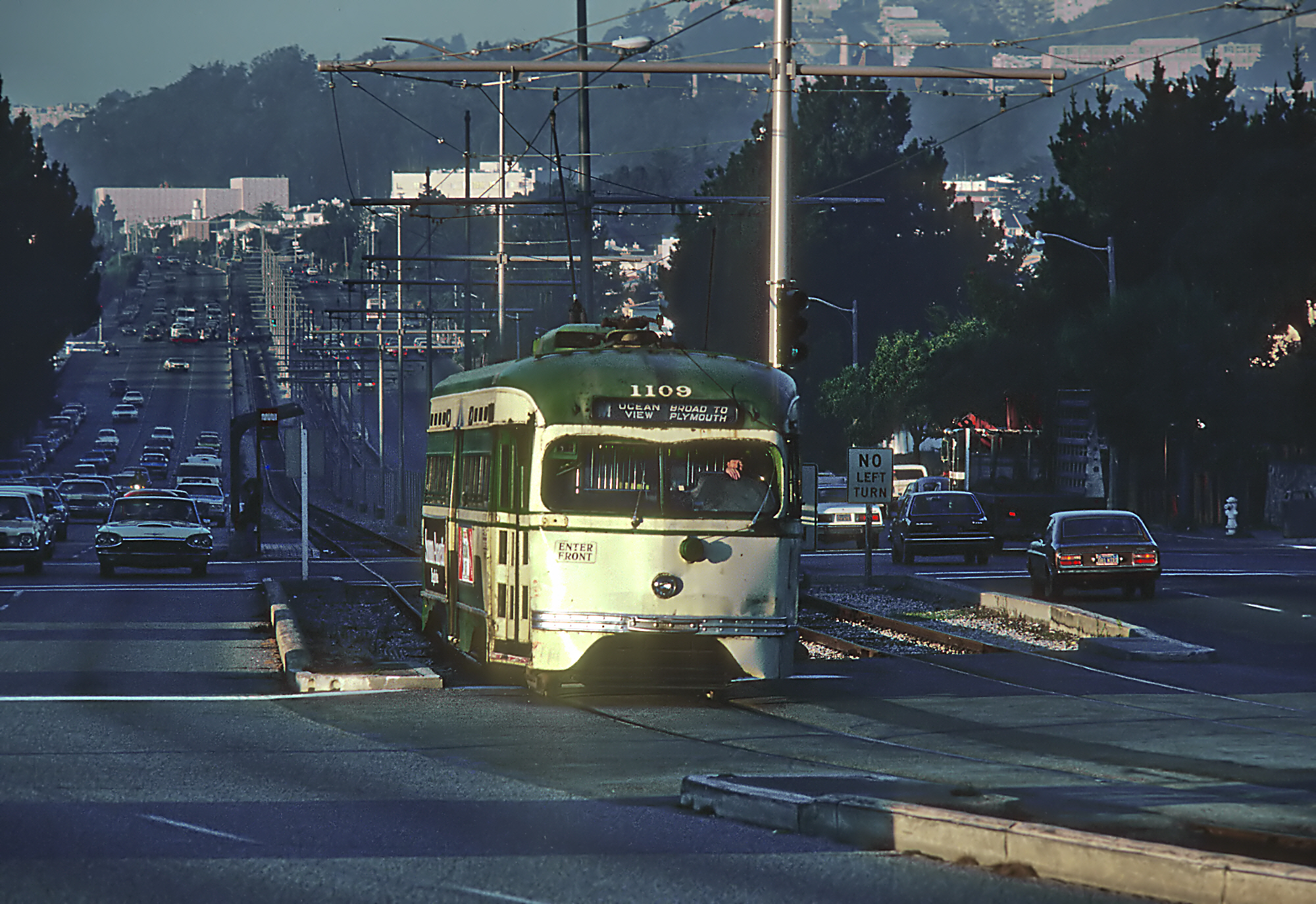 Muni #1109 on 19th Avenue just south of the Holloway (SF State) stop in December 1980